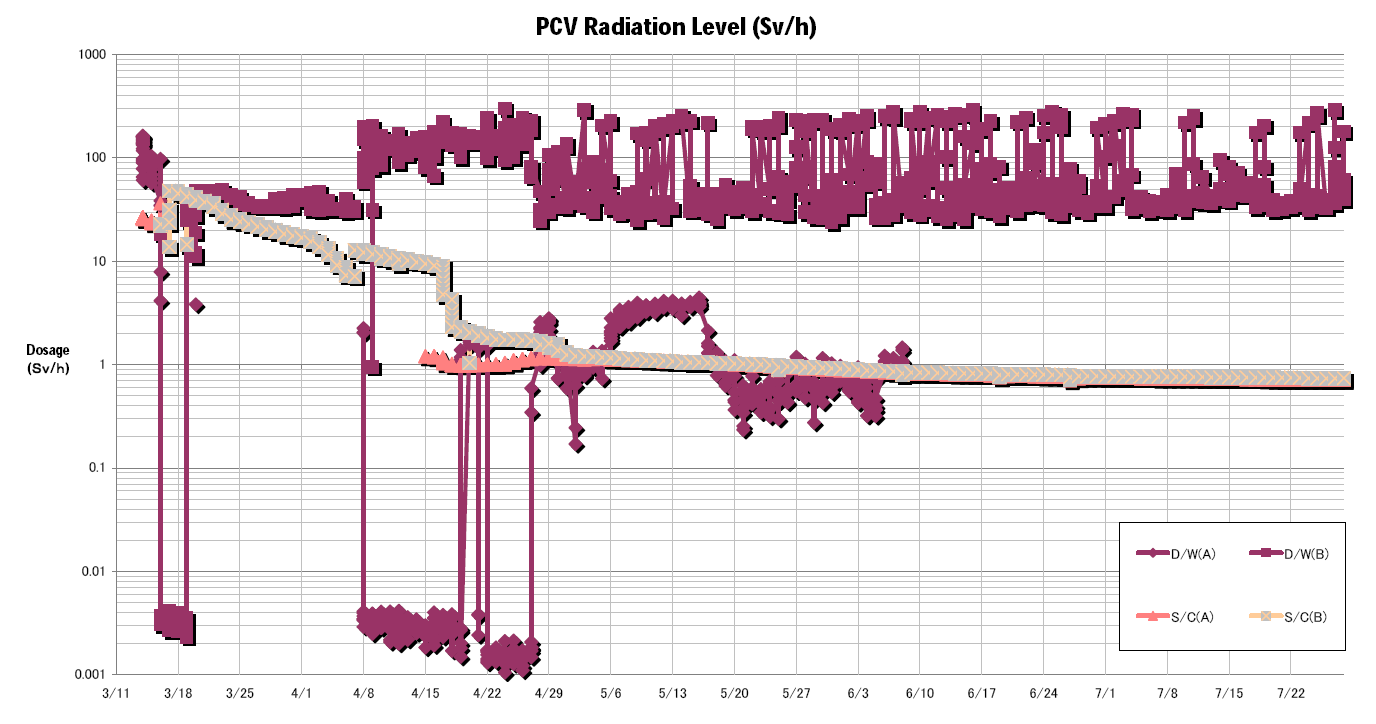 Fukushima I Nuclear Power Statation, Unit 1 containment radiation data. D/W values are errneous because of damaged sensor. Diagram has been made from data with multiple measurements per day, but time has been ignored, so there are days with multiple data values at the same x-axis value. Data source: Tepco.